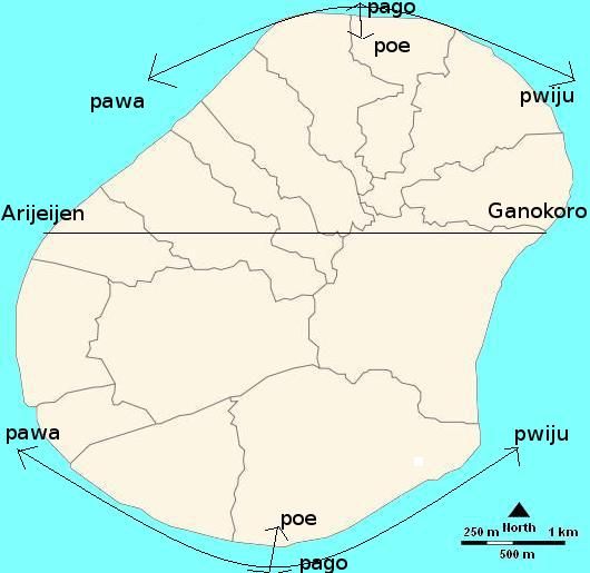 Map of Nauru with Nauruan directional system marked on it. The Nauruan directional system is similar to the commonly used North, South, East and West, however it is unable to be used outside of Nauru. The four main directions are pago, poe, pawa and pwiju (pwijiuw). Gankoro and Arijeijen are also marked. For more information, see here. (Taiwanese)